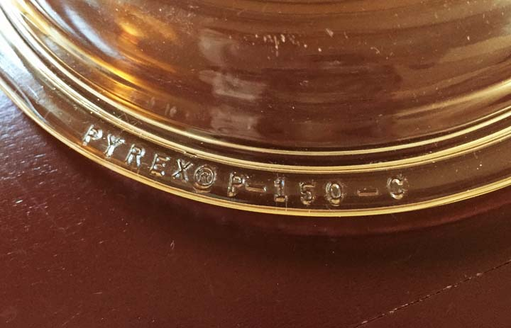 Detail of 5 1/2" diameter glass lid, with marking "PYREX® P—150—C".